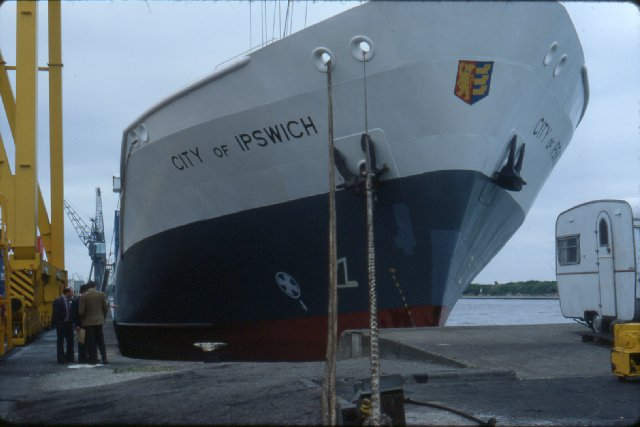 Vessel loading cargo for the Mediterranean